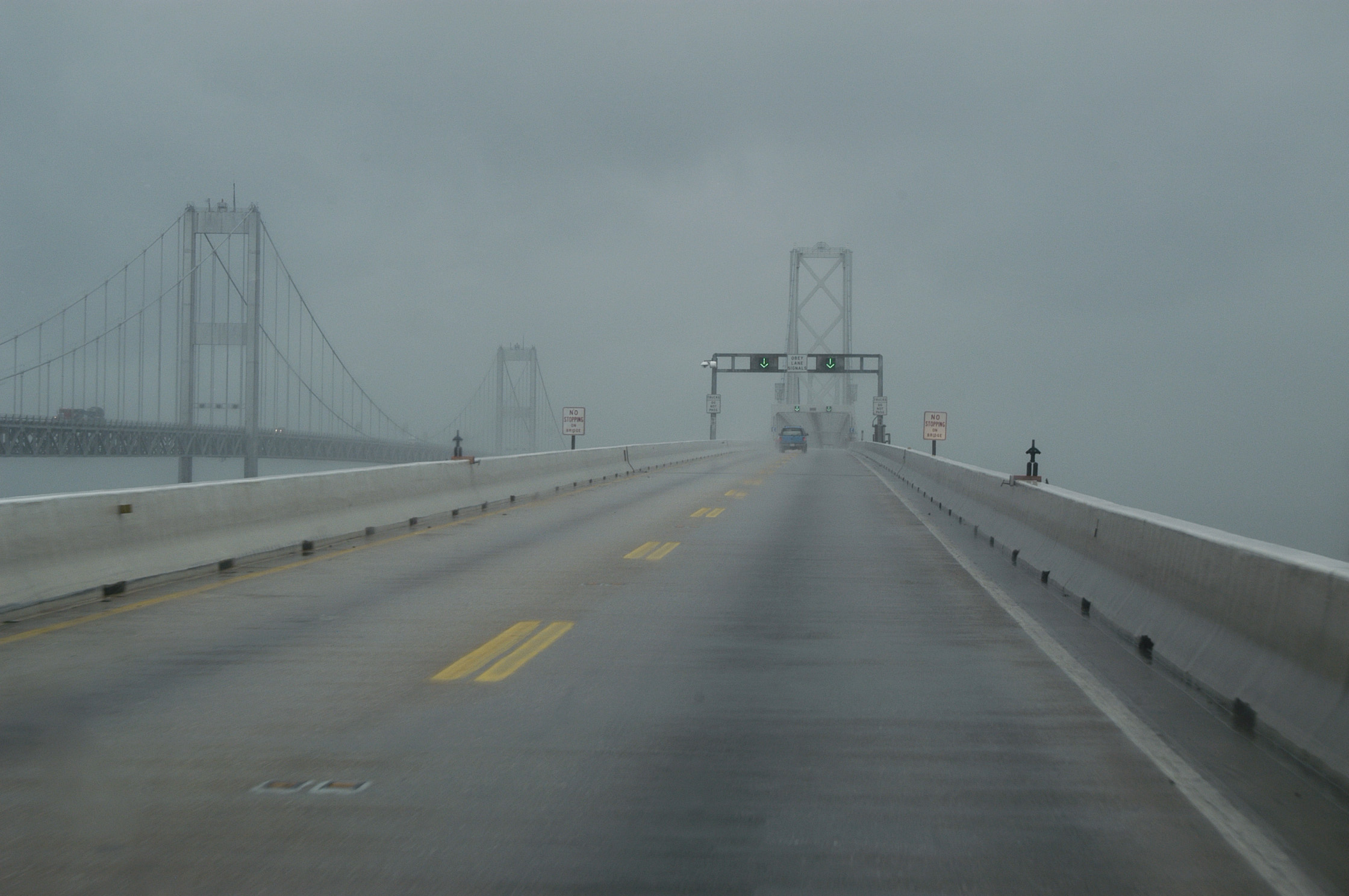 "Annapolis MD 9/18/03 -- Wind speeds reached upwards of 55 mph on the Chesapeake Bay Bridge, and officials were forced to close it."